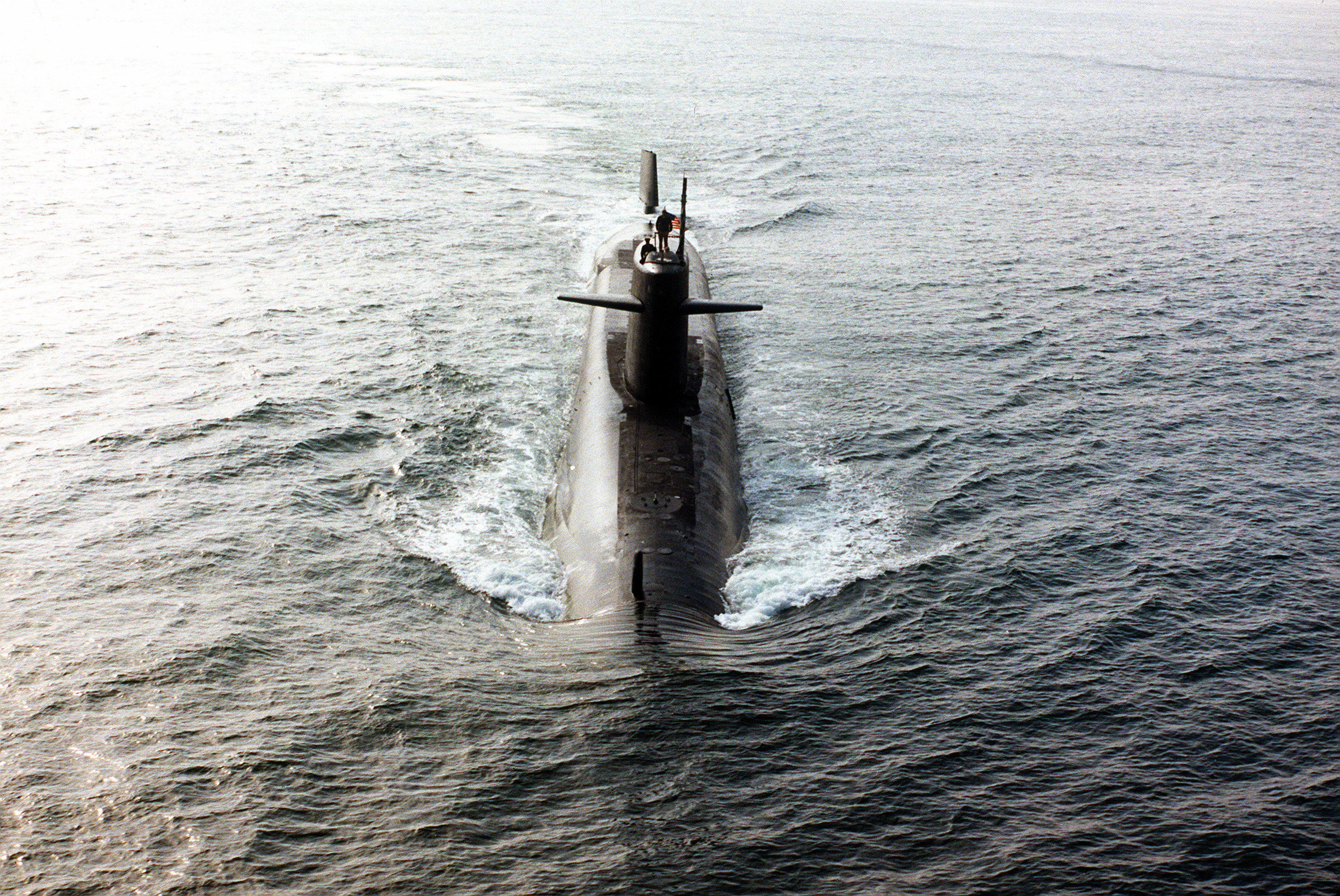 An aerial bow view of the nuclear-powered strategic missile submarine USS Thomas Jefferson (SSBN-618) underway on 14 June 1976.